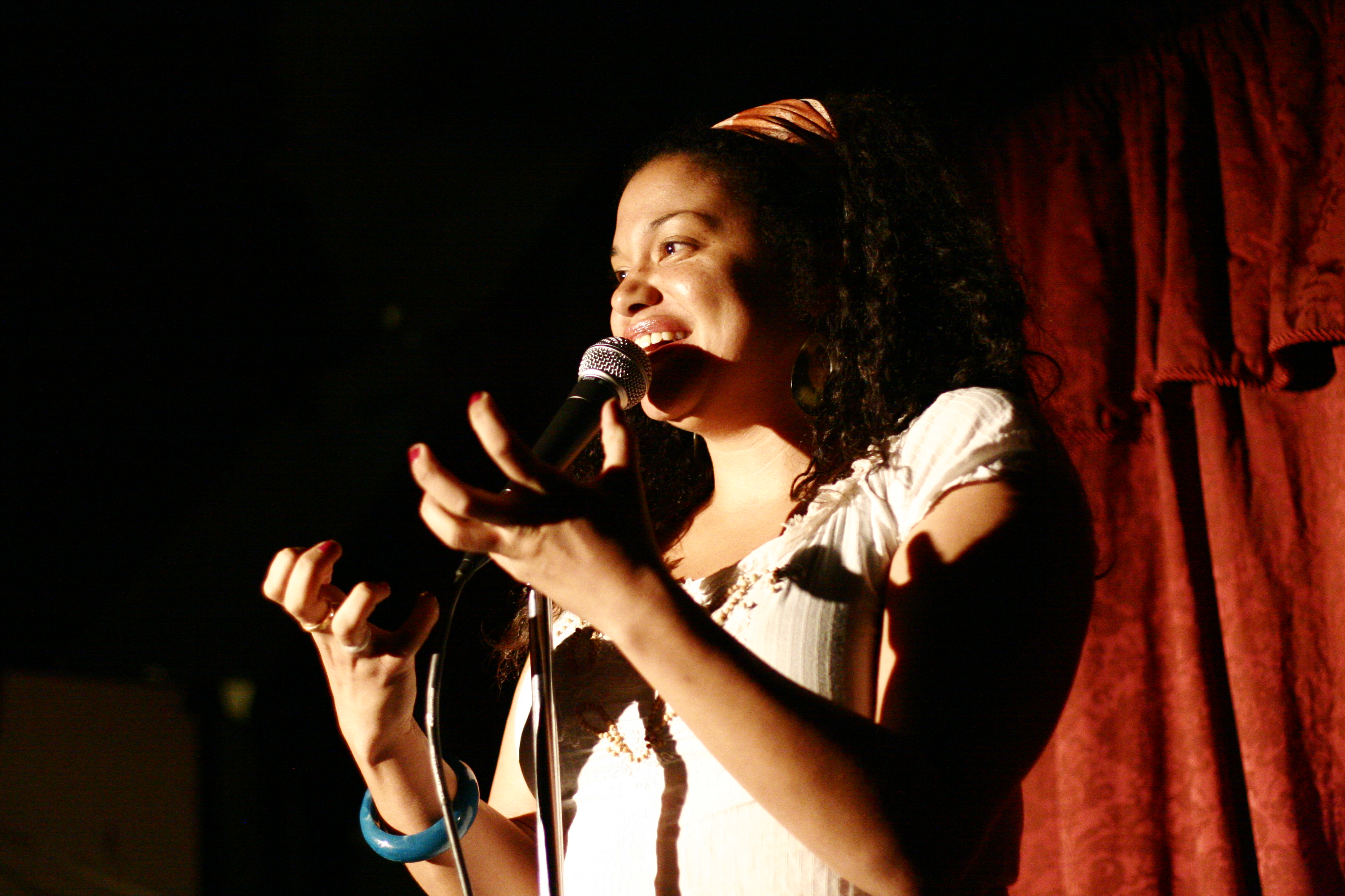 Michelle Buteau at Shades of Black at Julep on 5.7.2007